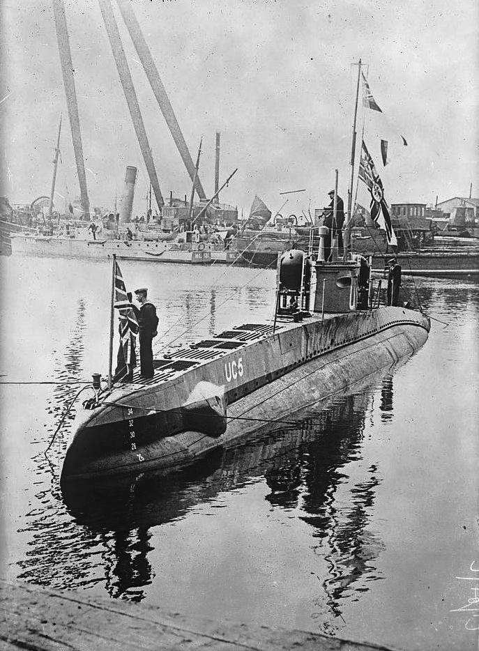 The German Imperial Navy submarine UC 5 after its capture in 1916. UC 5 was a German Type UC I U-boat and commissioned on 19 June 1915 at Hamburg. She served in the First World War under the command of Herbert Pustkuchen (June 1915 - December 1915) and Ulrich Mohrbutter (December 1915 - April 1916). UC 5 had an impressive career, with 29 ships sunk for a total of 36,288 tons on 29 patrols. She ran aground on Shipwash Shoal while on patrol on 27 April 1916 (51°59′N 1°38′E) and was scuttled, but the charges failed to explode. Her crew were captured by the British destroyer HMS Firedrake and the submarine was displayed at Temple Pier on the Thames river, and later New York for propaganda purposes.